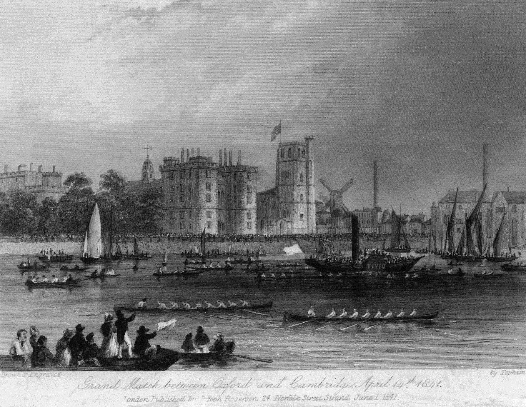 The 1841 Oxford-Cambridge Boat Race - engraving - 1841. "Grand Match between Oxford and Cambridge, April 14th 1841. Drawn & Engraved by Topham." published by "Joseph Rogerson, 24 Norfolk Street Strand, June 1, 1841"